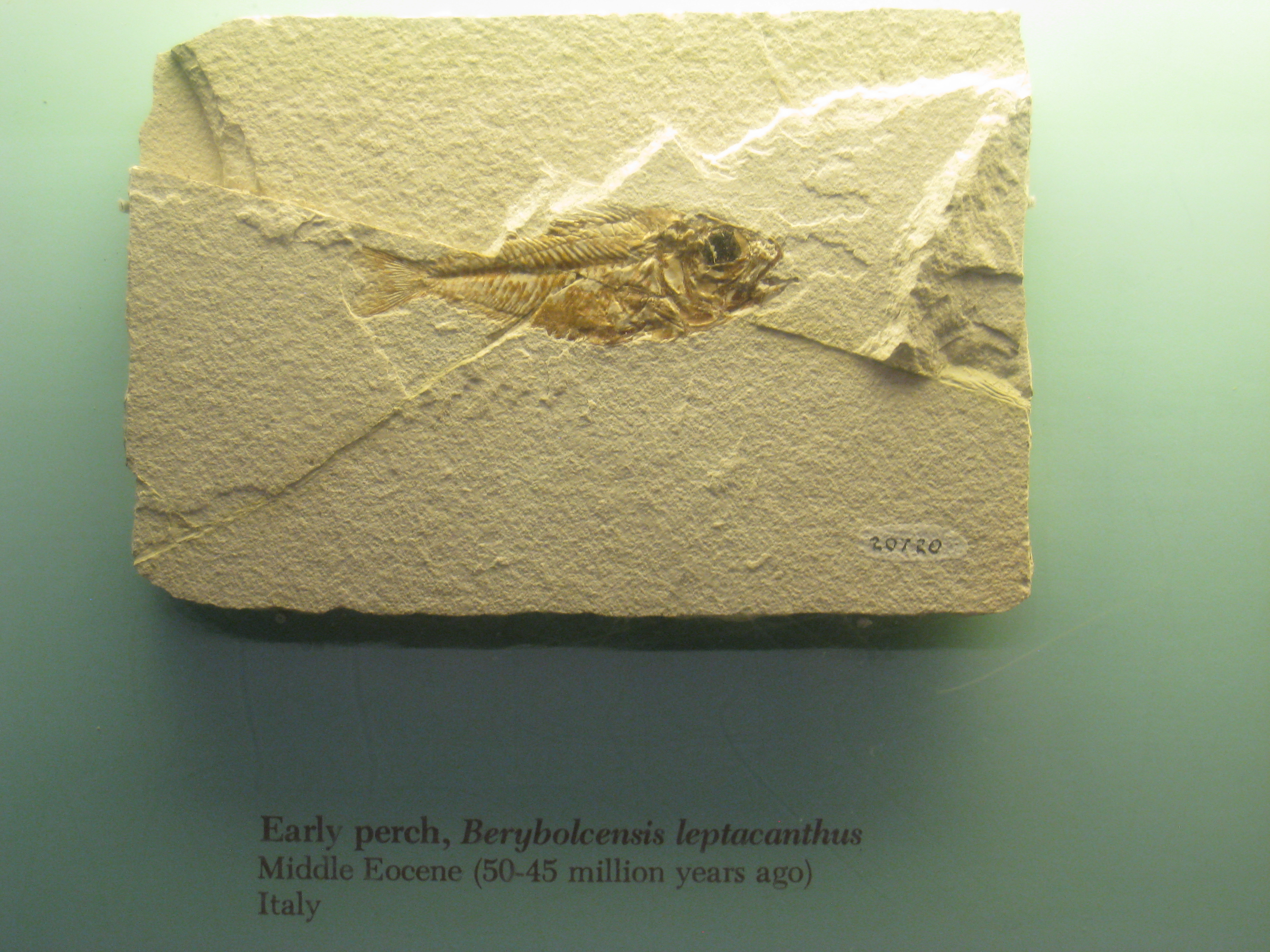 Berybolcensis leptacanthus fossil specimen in the National Museum of Natural History, Smithsonian Institution, Washington, DC, USA.